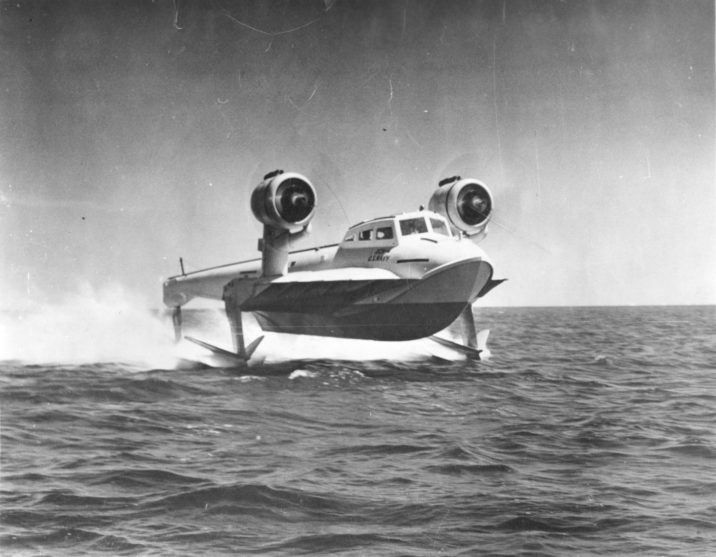 Carl XCH-4 "Canard" hydrofoil undergoing U.S. Navy tests on Long Island Sound